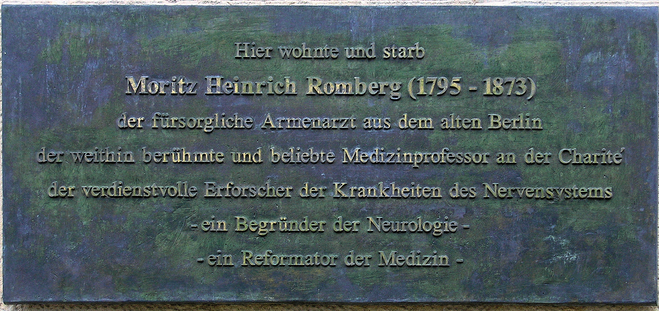 Memorial plaque, Moritz Heinrich Romberg, Am Zeughaus 2, Berlin-Mitte, Germany Koordinate:52°31′7.6″N 13°23′51.4″E / 52.518778°N 13.397611°E